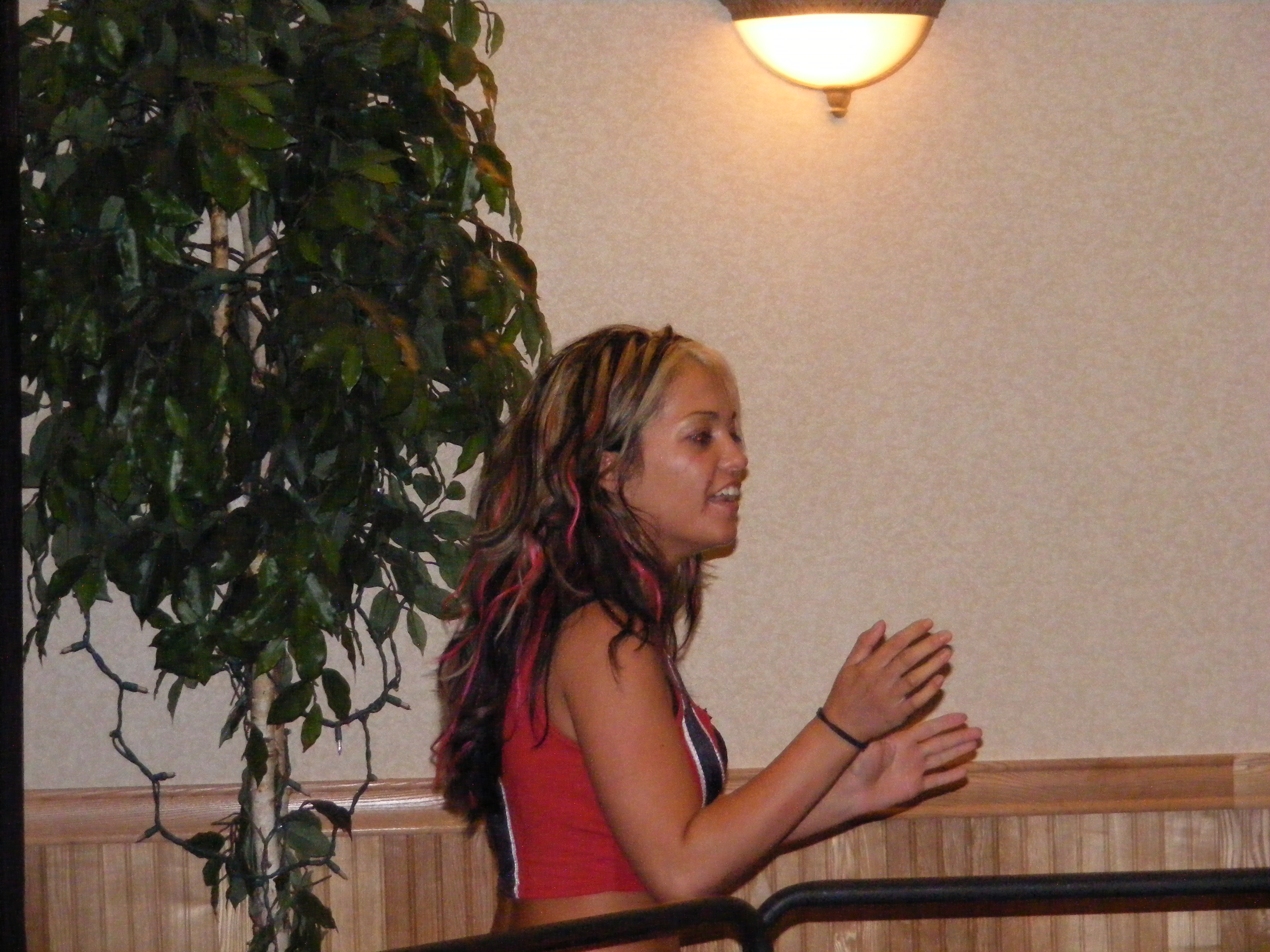 Professional wrestler Alexxus at an NWA-LS show in June 2010, in Manchester, NH.